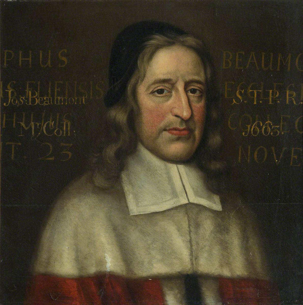 Joseph Beaumont (1616-1699), Master of Jesus College and of Peterhouse, Cambridge